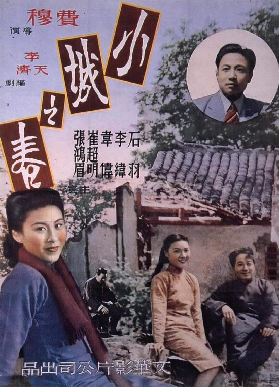 1948 Chinese movie poster for 1948 Chinese film Spring in a Small Town (小城之春, Xiǎochéng zhī chūn, Xiao cheng zhi chun)